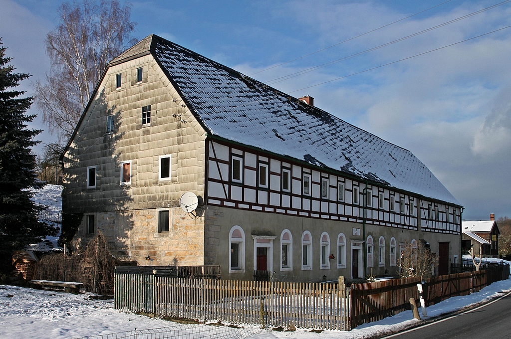 This photo shows the "Hofmühle", a former water-mill, in Reichstädt near Dippoldiswalde in the ore mountains.